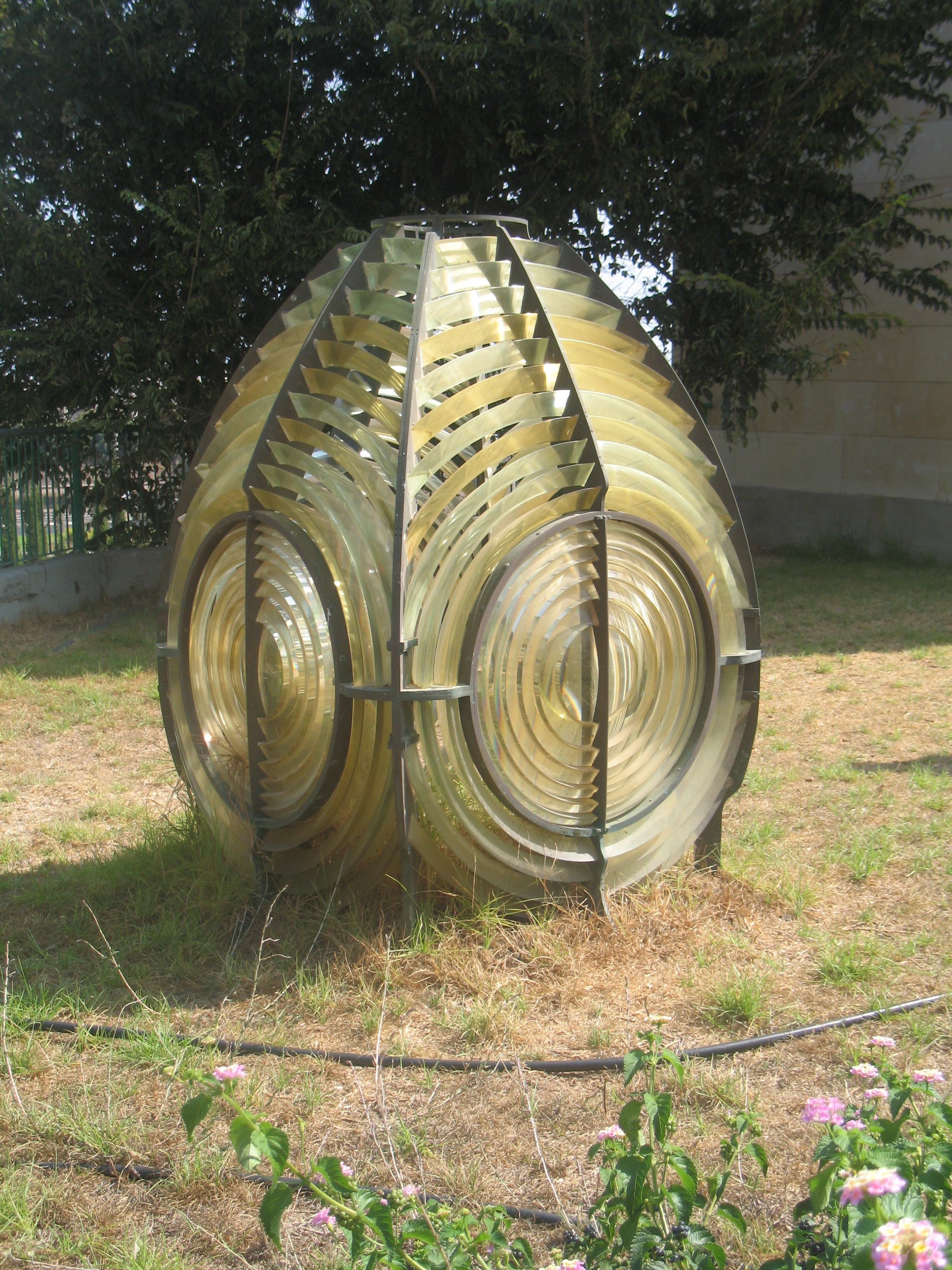 Original catadioptric apparatus from the Stella Marris Lighthouse, displayed in front of the facade of the Israeli National Maritime Museum, Haifa